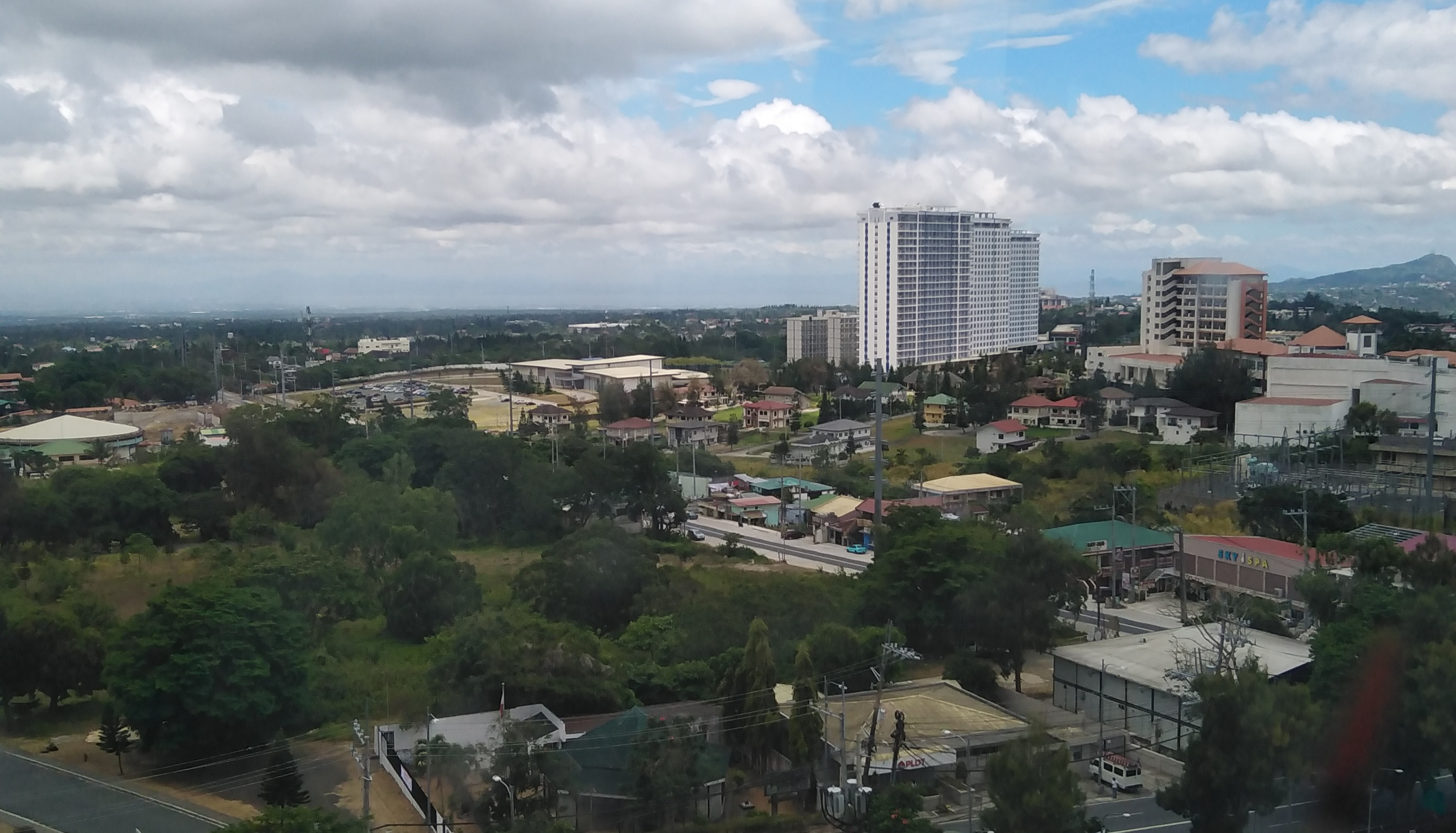 View of buildings in Tagaytay from the Sky Eye ferris wheel.